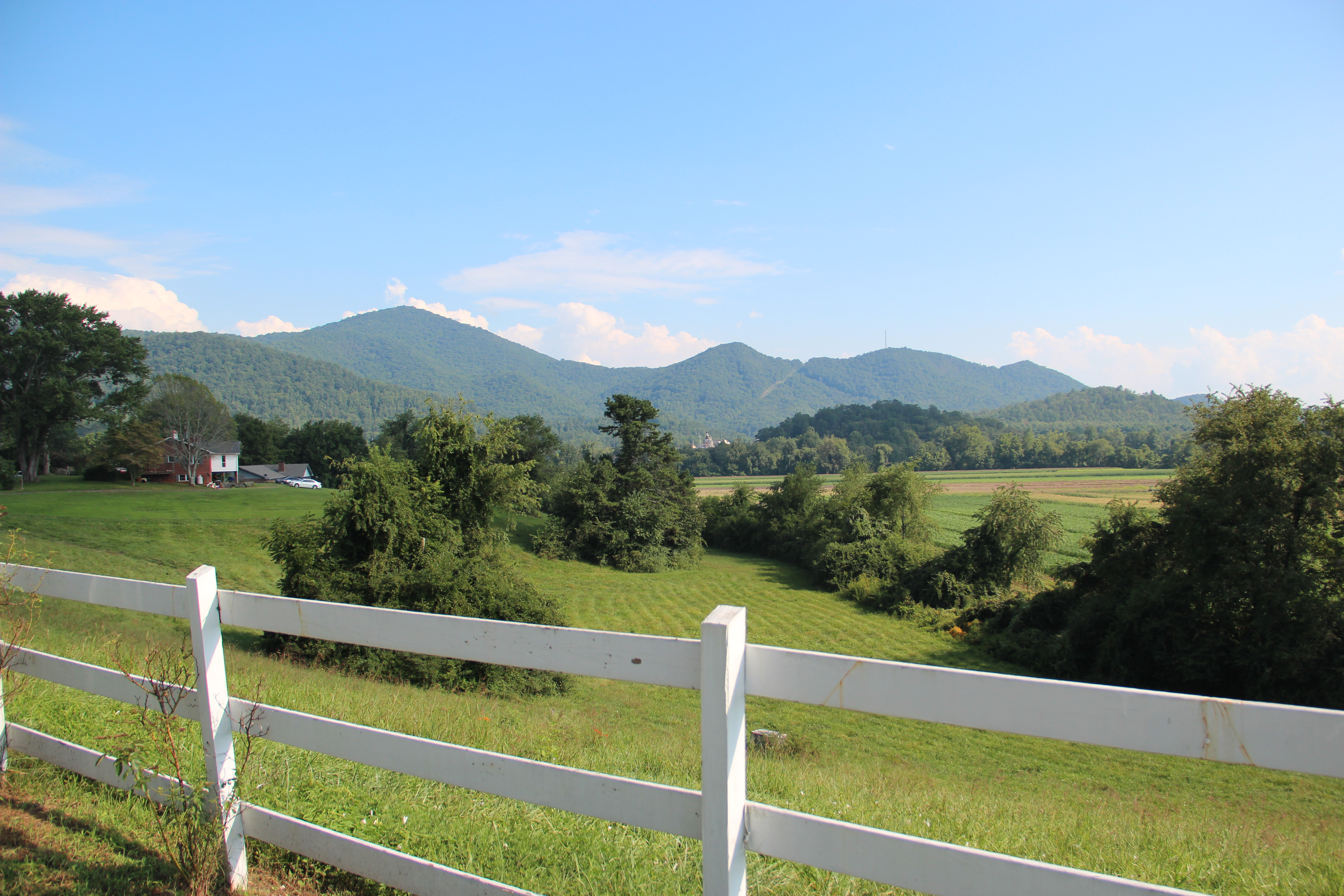 Dillard, GA view after eclipse, Aug 21 2017